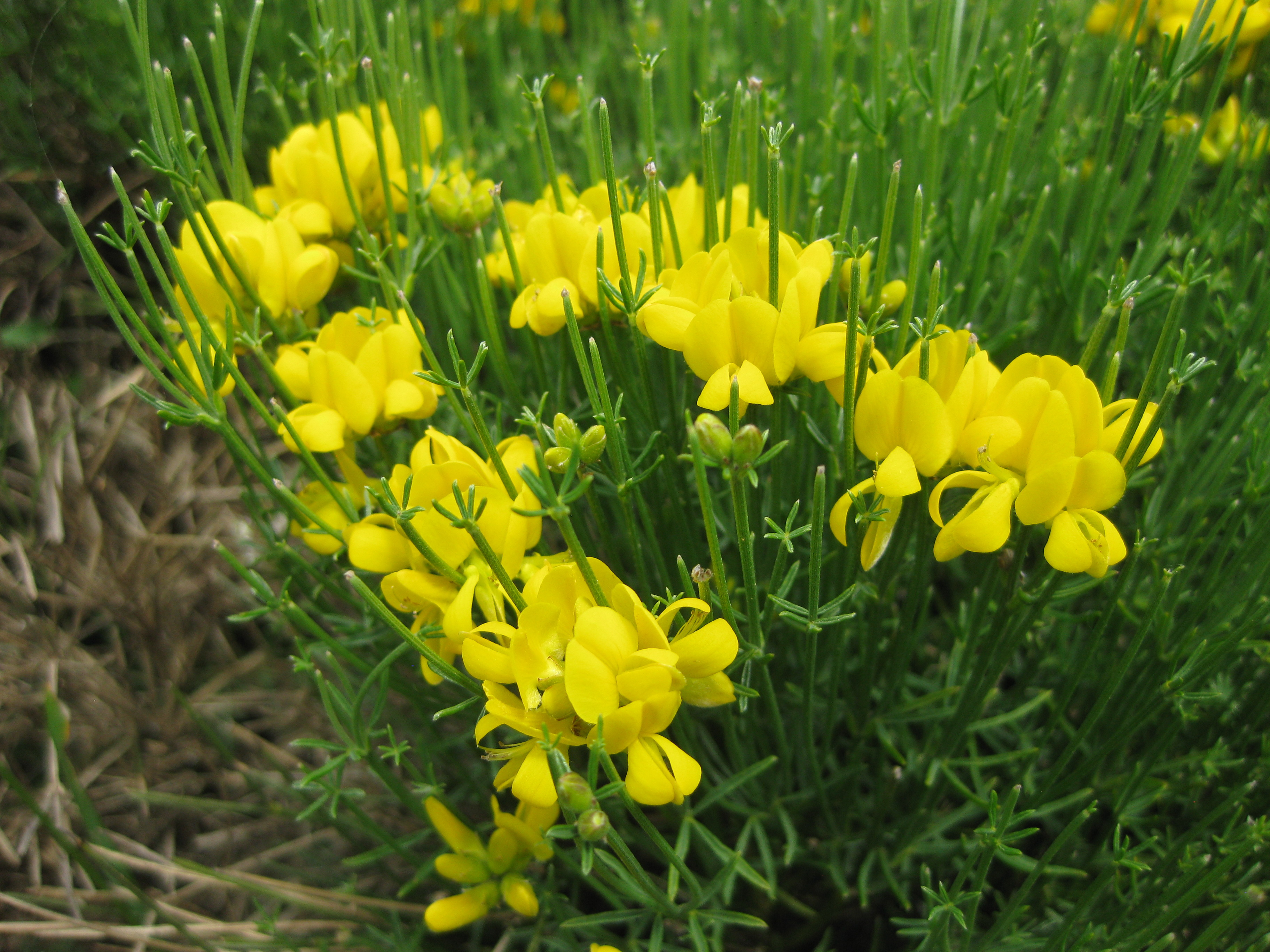 Genista radiata in the Jardin Botanique Alpin du Lautaret